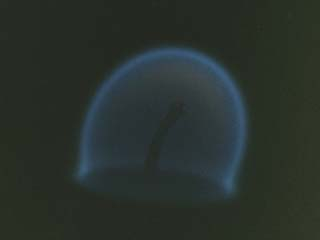 Candle flames were studied on the Mir Space Station. This flame surrounds the wick like a luminous halo which is different than the ordinary pear-shaped flame seen on Earth. The candle flame experiment studied candles with different diameters, wick diameters, and wick lengths. Flame flickering, flame oscillations, and gravitational effects were also studied for the candle flame experiment.